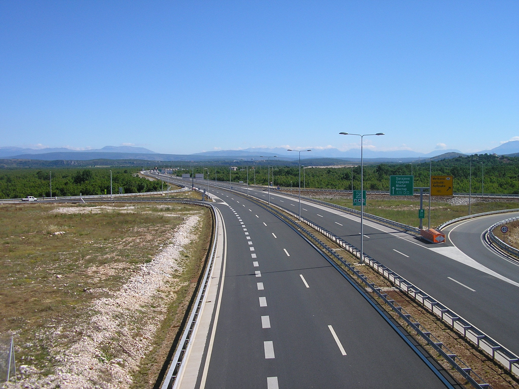 A1 highway, exit Bijača, towards the Zvirovići interchange